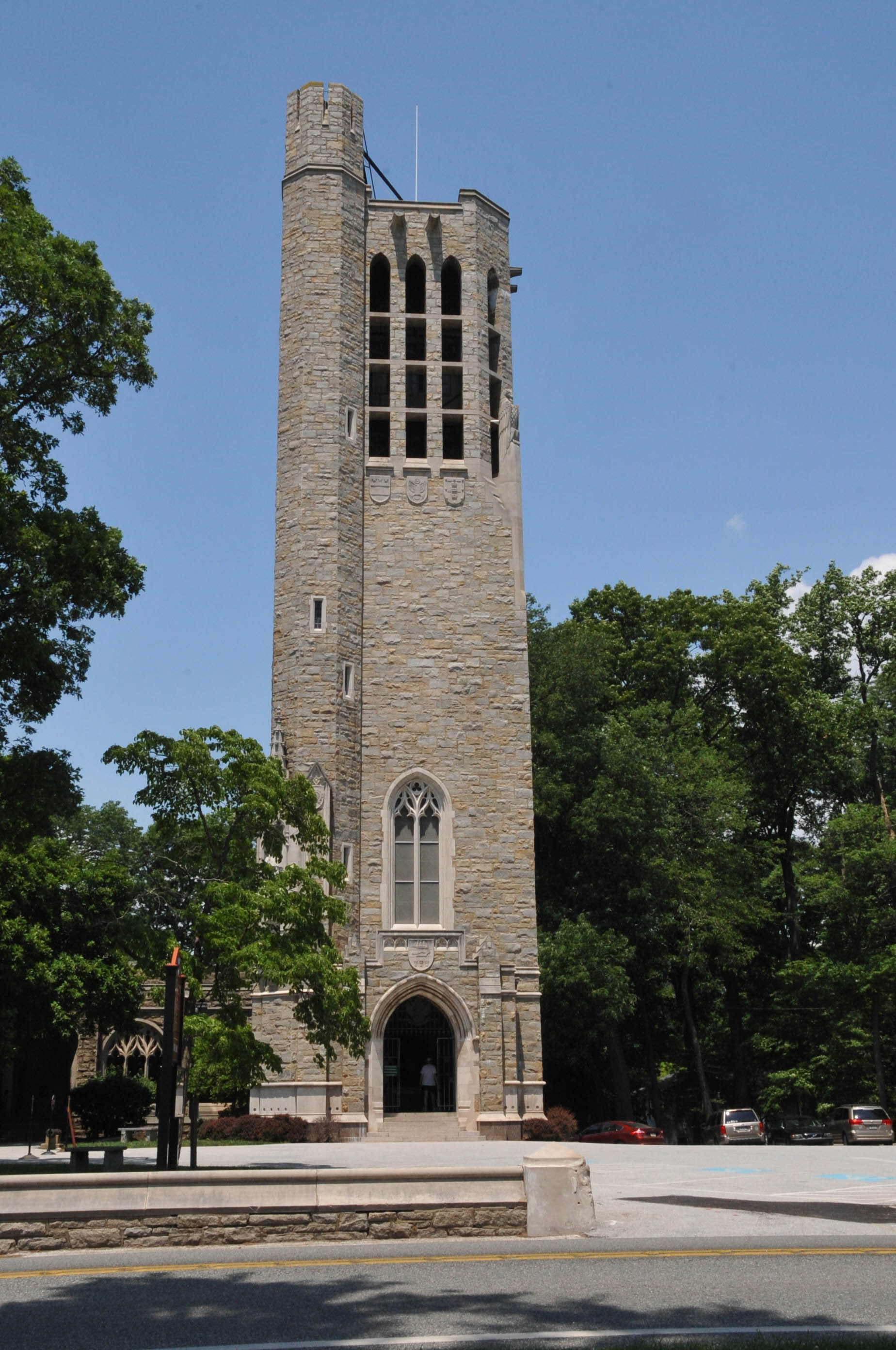 Washington Memorial Chapel is both an active Episcopal parish and a tribute to General George Washington. Designed by Milton B. Medary, the Chapel resulted from a sermon preached by founder, the Rev. Dr. W. Herbert Burk of Norristown, an episcopal priest. The chapel was started in 1903 and is still an active Episcopal church and not owned by the park itself.